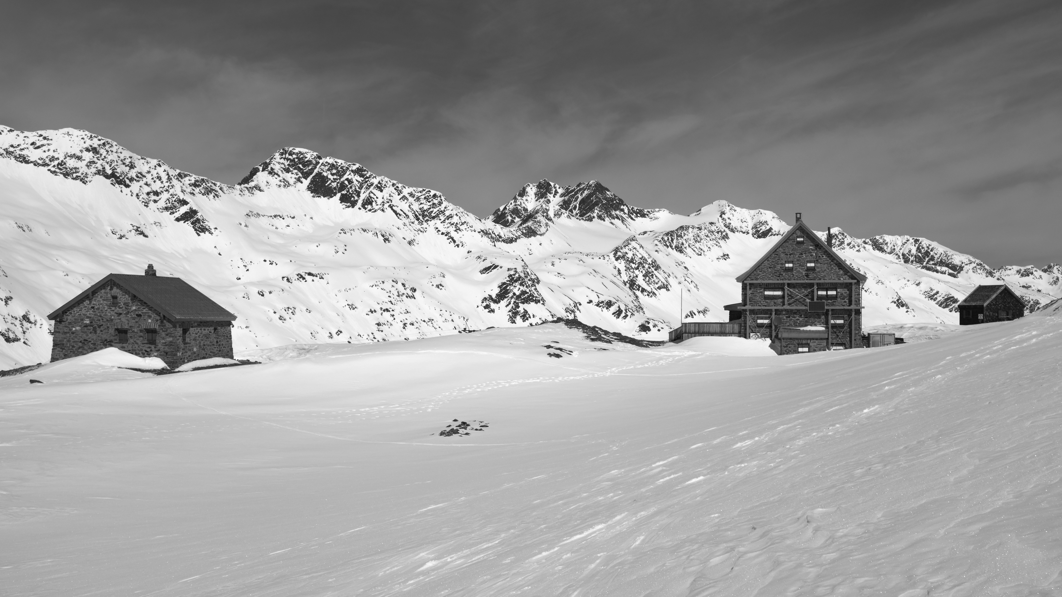 Hochwildehaus (center) and Fidelitashütte (right). On the left an old toll hut. Spiegelkogel and Ramolkogel in the background.